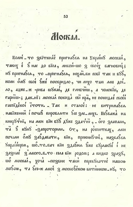 M.Hatsuk (1861) Ukrainska abetka p.53